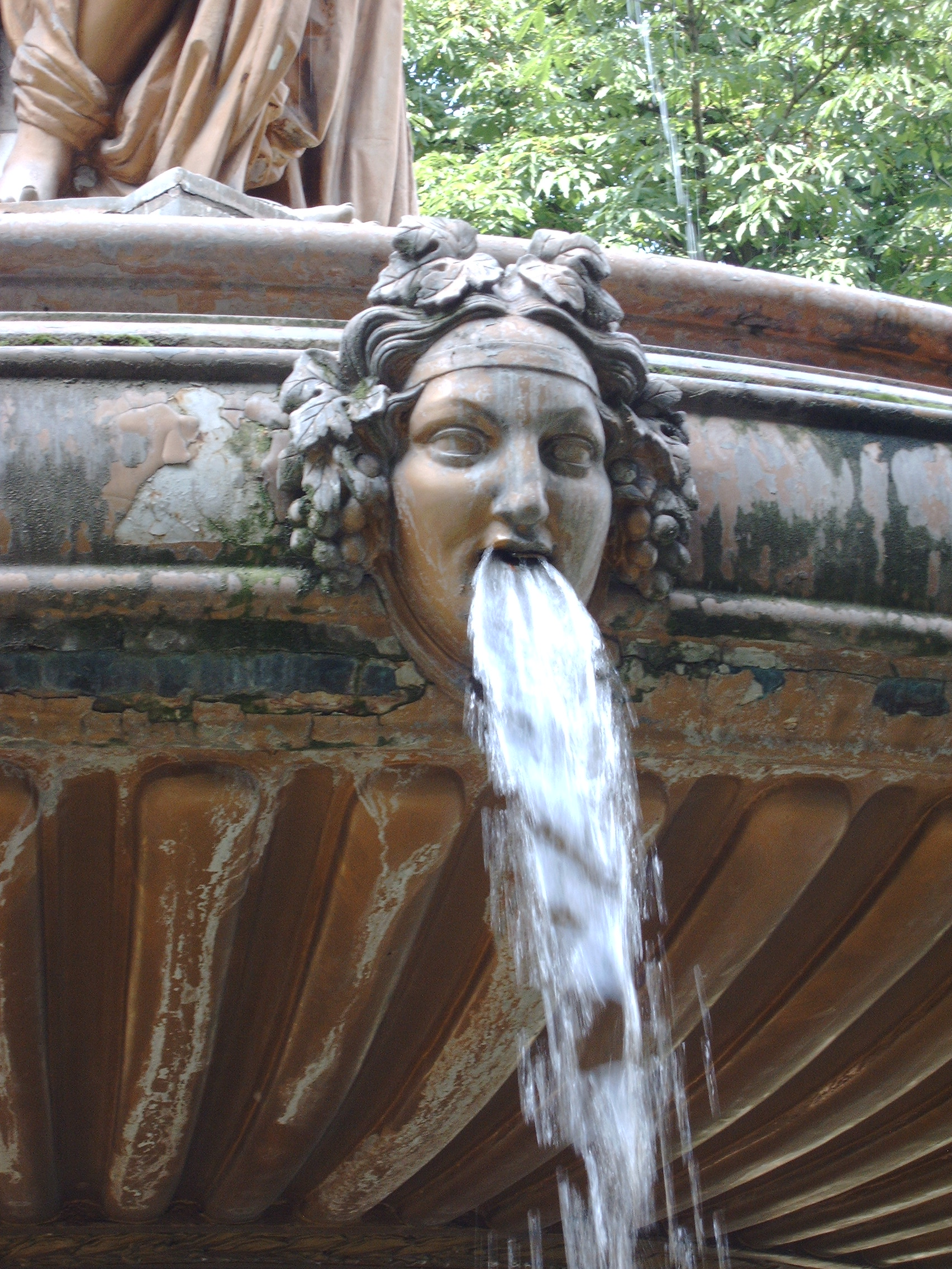 Fountain inaugurated in the 1840's in Paris' 2nd arrondissement Architecture : Louis Visconti (1791–1853) Description French architect Date of birth/death11 February 179123 December 1853Location of birth/deathRomeParisAuthority control VIAF: 24653651 ISNI: 0000 0001 1608 8885 ULAN: 500008209 LCCN: nr92041841 GND: 119100932 WorldCat Sculpture : Jean-Baptiste Jules Klagmann (1810–1867) Description French sculptor Date of birth/death18101867Authority control VIAF: 95944321 ULAN: 500040676 GND: 140248021 SUDOC: 18167033X